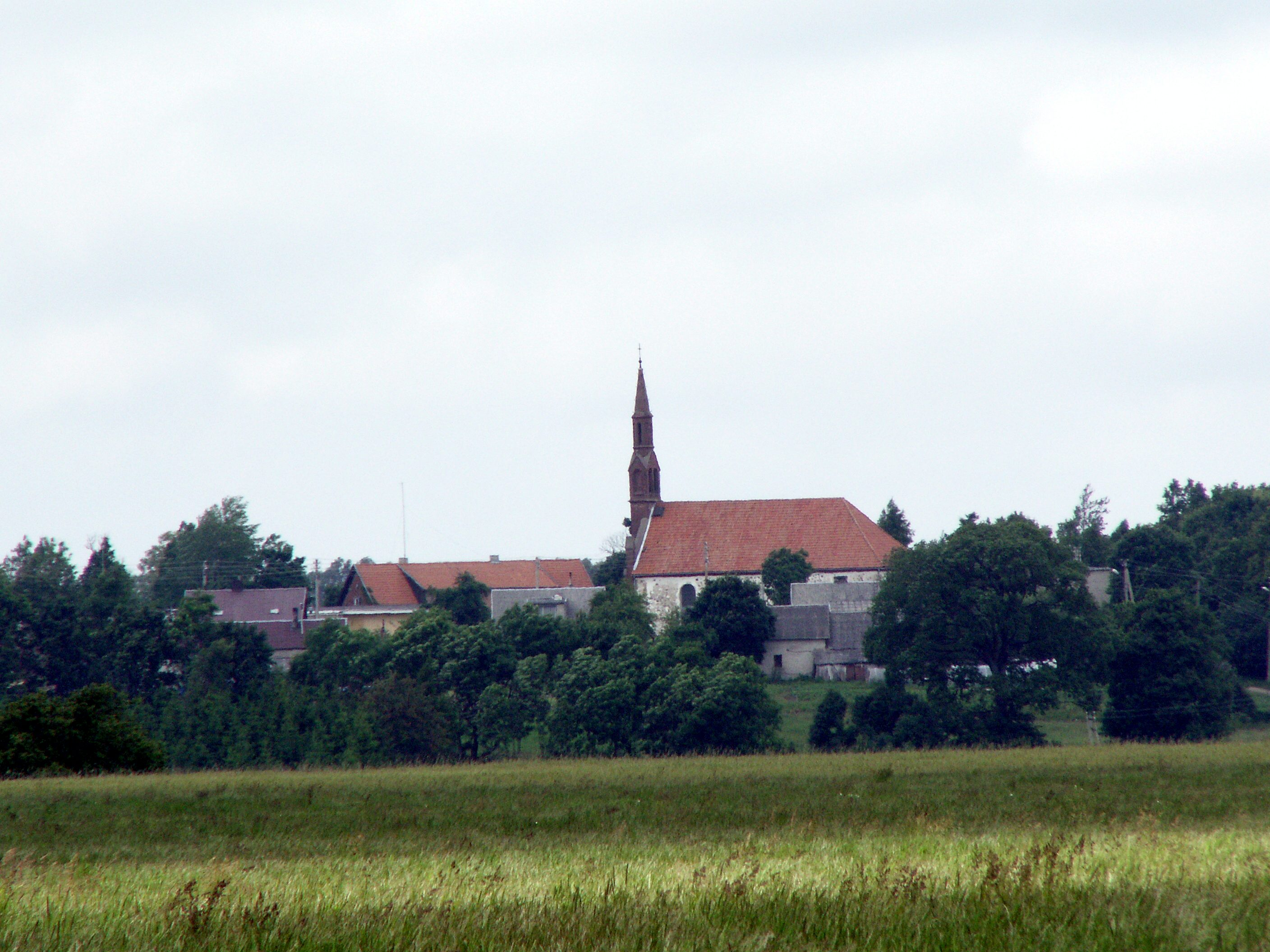 Settlement Kretingalė, Klaipėda district, Lithuania